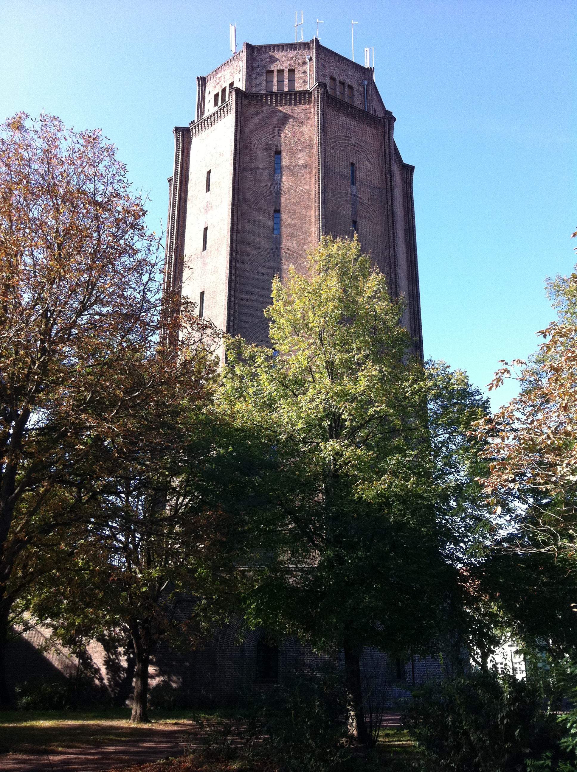 Wasserturm Süd in Halle (Saale) aus nordöstlicher Richtung